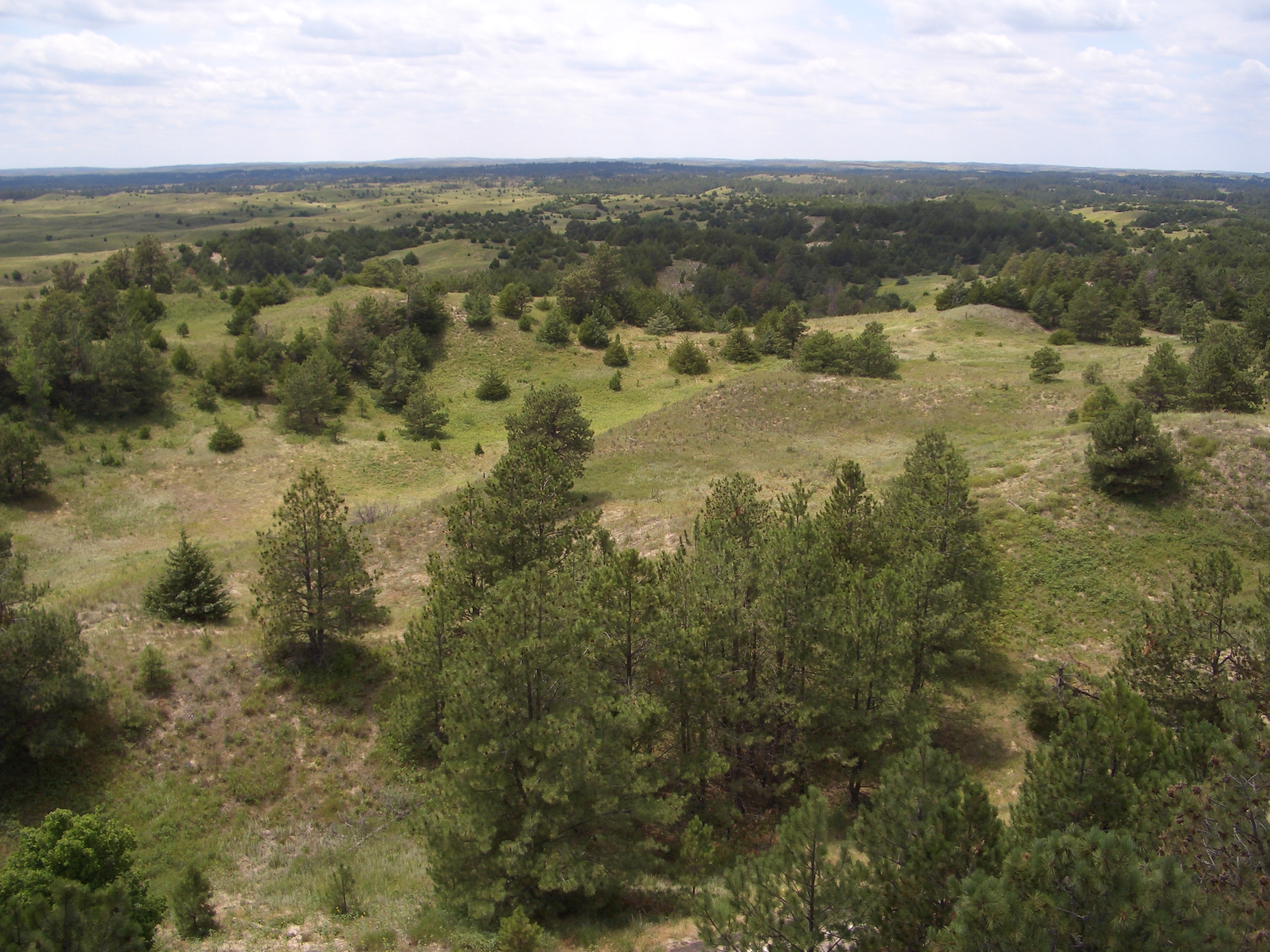 The Bessey Ranger District of the Nebraska National Forest, near Halsey, Nebraska, is the largest human-planted forest in the United States. This photo was taken from the top of Scotts Tower.